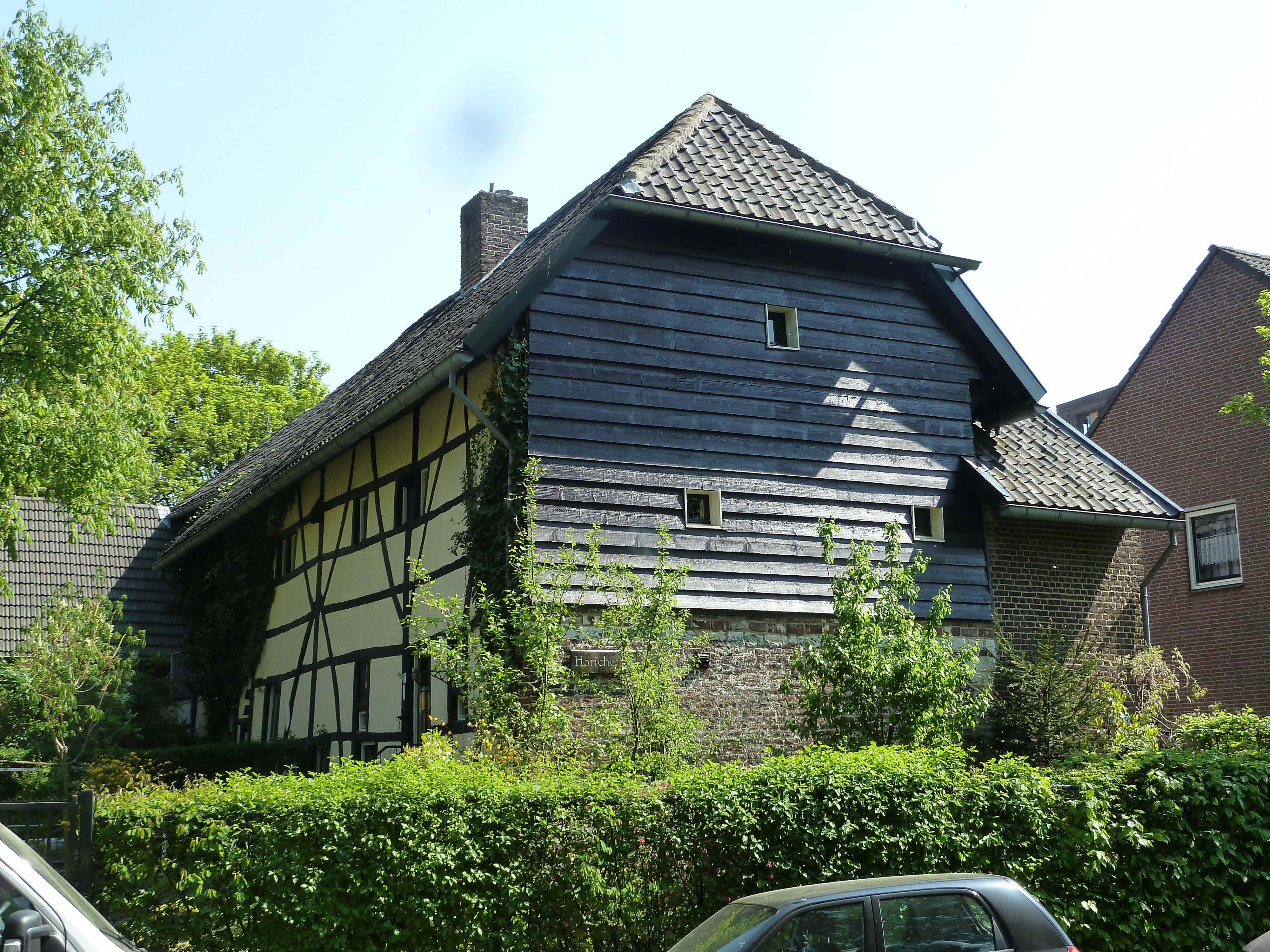 Corisbergweg 119a, Heerlen, Limburg, the Netherlands